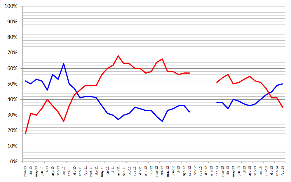 Levels of aproval (blue) and disapproval (red) of Sebastián Piñera, according to Adimark's poll The poll was not conducted between October 2012 and January 2013.